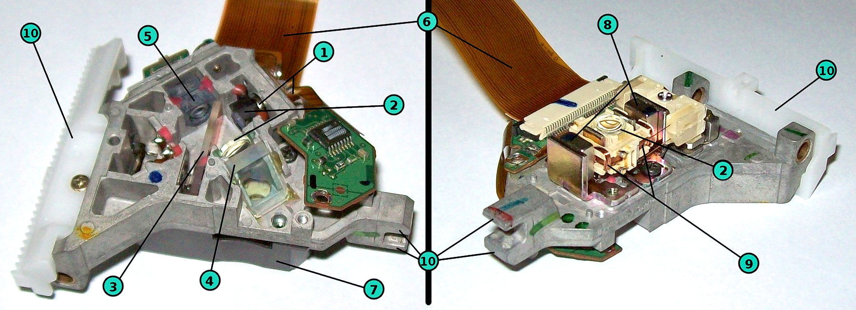 Laser and optics parts form a CD-ROM unit. On the left: the bottom of the mechanism. On the right: the top of the mechanism. 1. Laser diode. 2. Lens. 3. Ray divisor. 4. Mirror (drives the laser light upwards). 5. Photodetector (photodiodes). 6. Bus. 7. Plastic cover. 8. Magnets. 9. Coils (they are used to move the len which focus the laser ray to the CD). 10. Mechanisms to move along the CD.